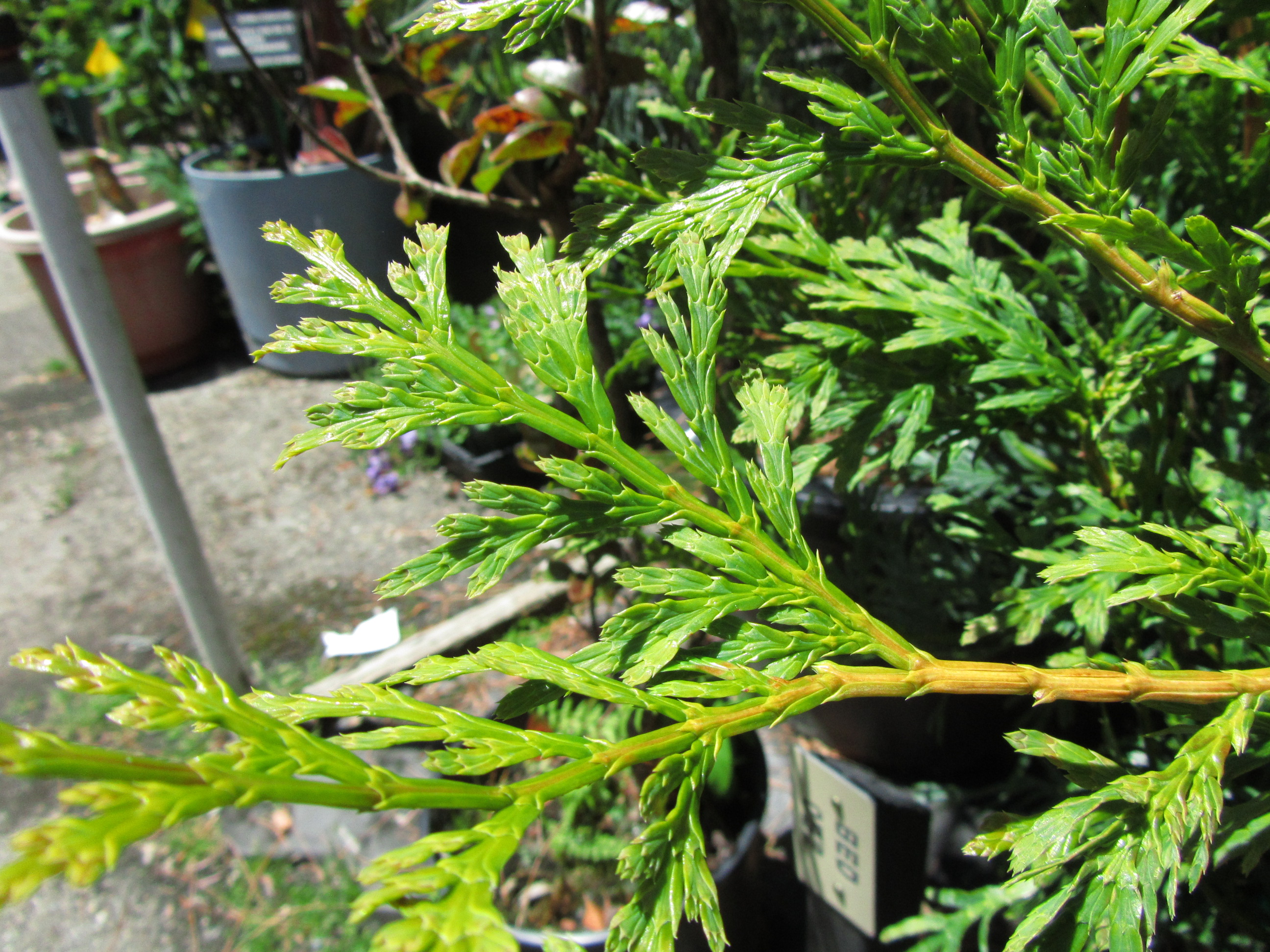 A twig of Calocedrus macrolepis